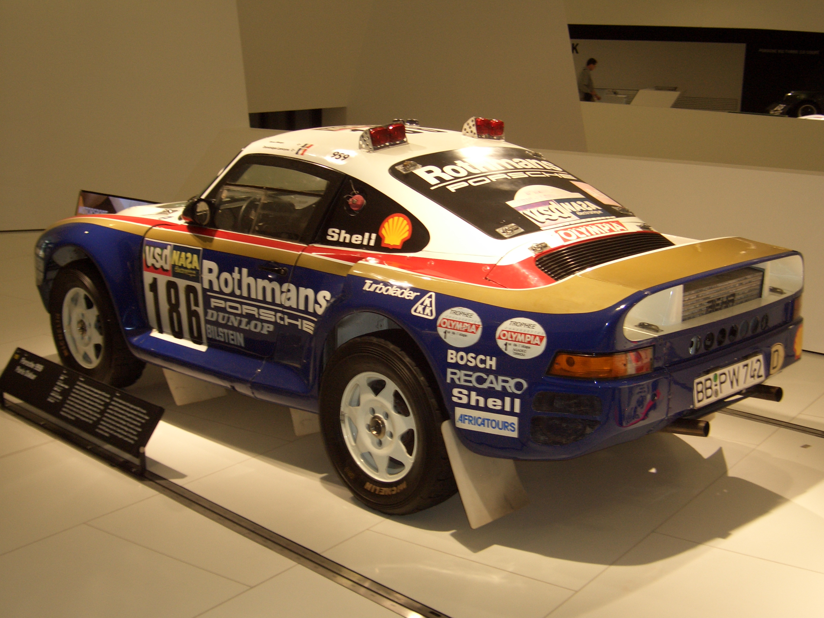 see filename for despcription - seen at PORSCHE MUSEUM in Stuttgart, Germany